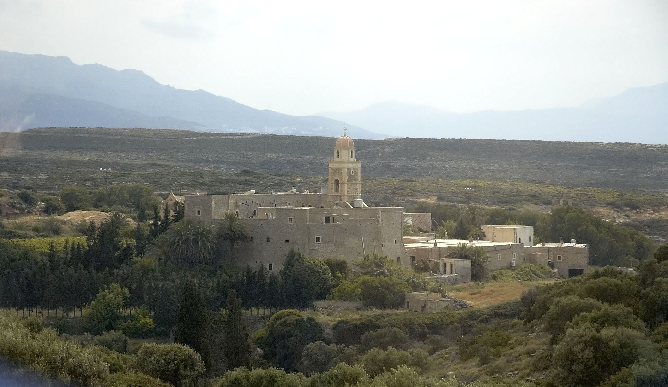 Moni Toplou